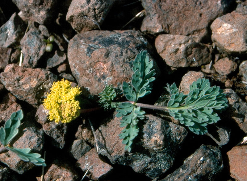 Lomatium ochocense — Ochoco lomatium. Endemic to the Ochoco Mountains, in the Malheur National Forest, Crook County, east−central Oregon. USFS photo, no copyright.